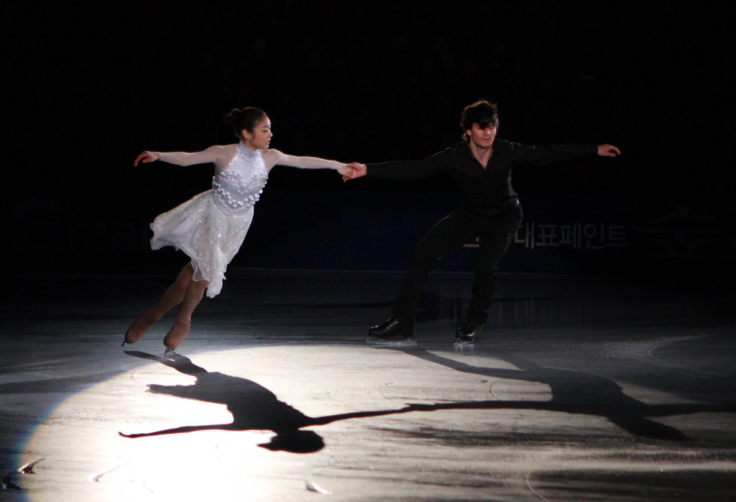 Kim Yu-Na & Stephane Lambiel at the 2009 Festa On Ice.